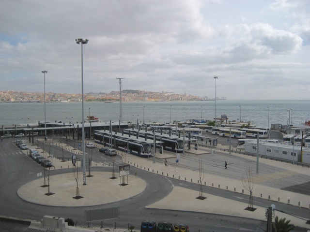 The Cacilhas terminal with Lisbon in the background